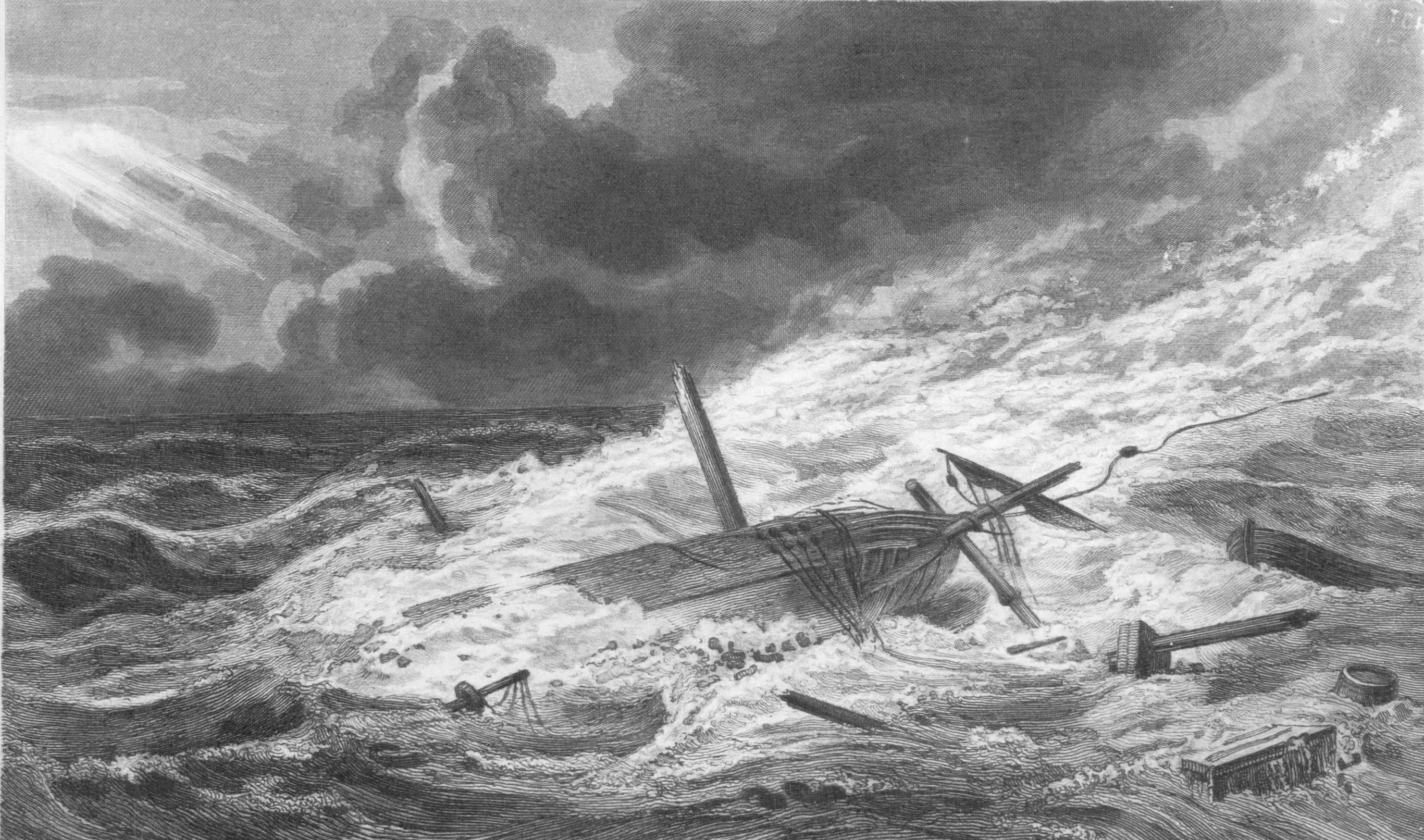 Artist's impressions of the wreck of the brig "Stirling Castle" off of Fraser Island.